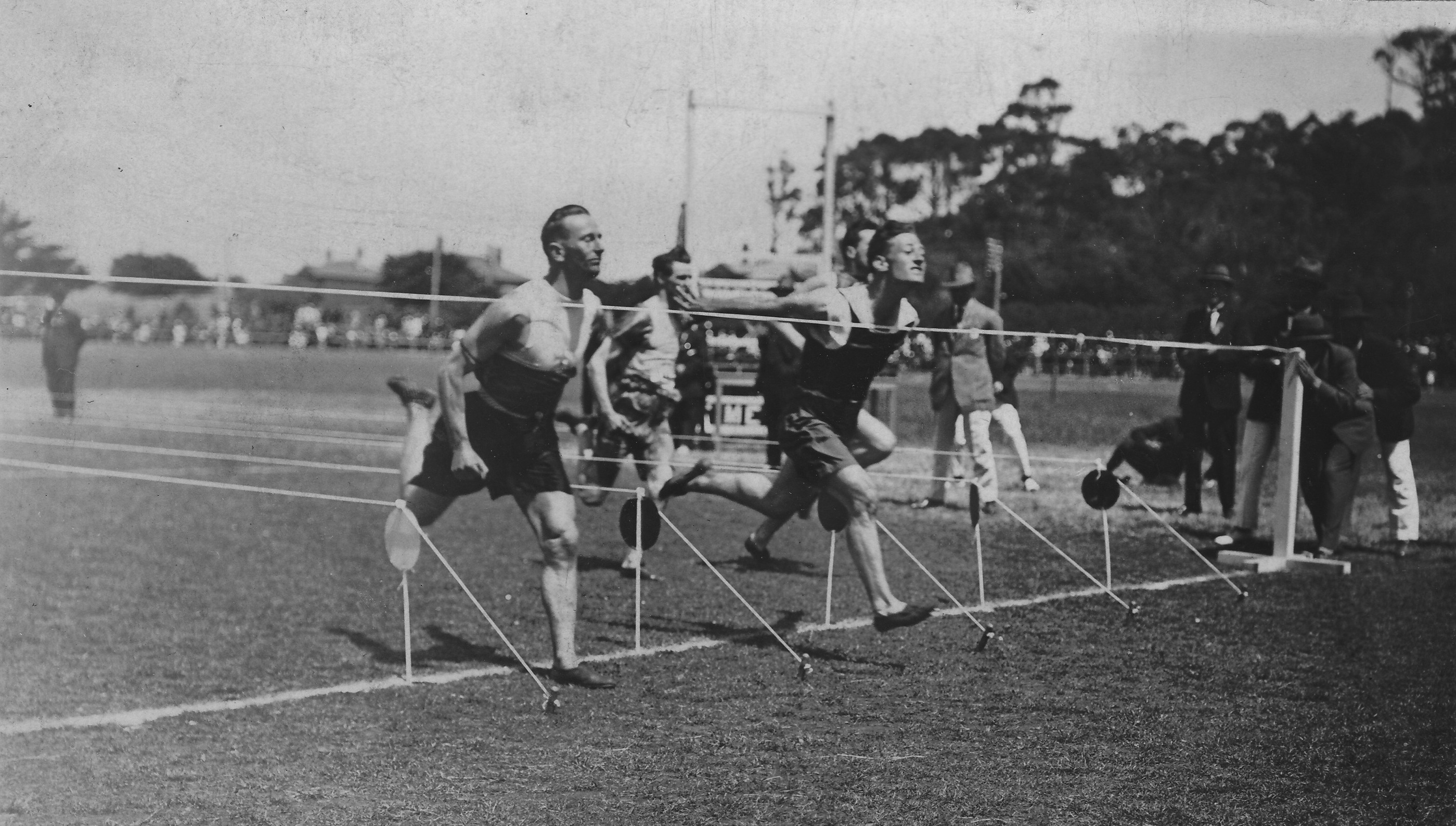 The finish of the 130 yards 1925 Burnie Gift, on Thursday, 1 January 1925. From left: A.M. Stuart of Hobart (11½ yards), second; Edward Richard "Ted" Terry (1904-1967) of Pyengana (11 yards), first, 13 seconds; G.F. Triffett of Queenstown (11 yards), fourth; and, partly obscured, M. Campbell of Devonport (11 yards), third.